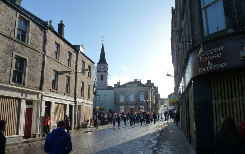 Jedburgh centre during Ba Game